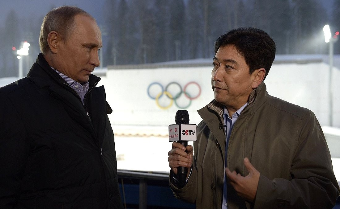 Vladimir Putin's interview about Olympics in Sochi (2014-01-17). With CCTV reporter Shui Junyi.